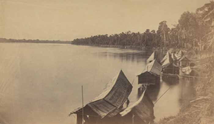 CO 1069-484-134 Description: Malayan Peninsula. View looking South on Perak river at Bhota. Straits Settlements June 1874. Location: Bhota, Malaya Date: June 1874